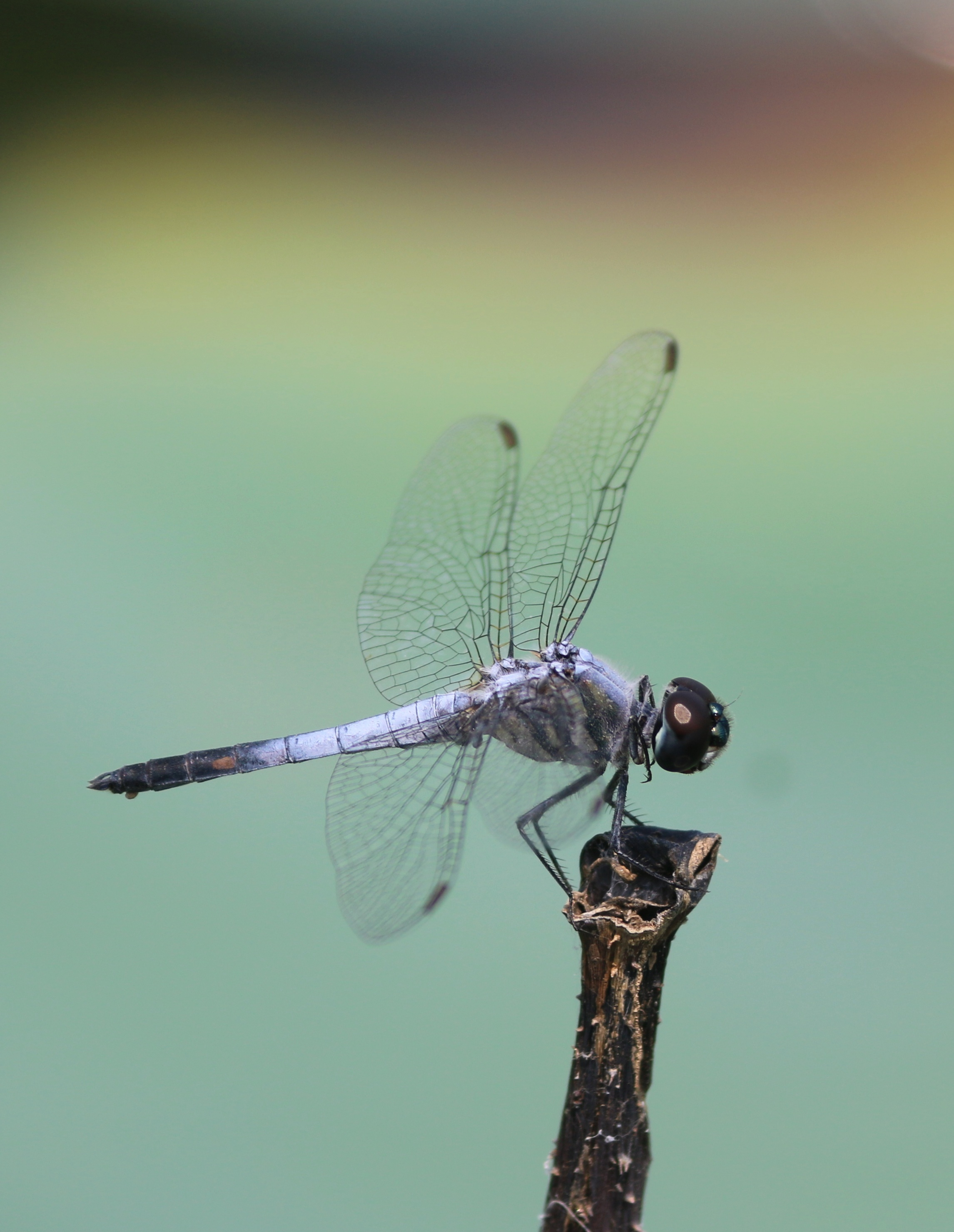 Brachydiplax sobrina male( little blue marsh / ചെറുവെണ്ണീറൻ) March 2020-Palakkad